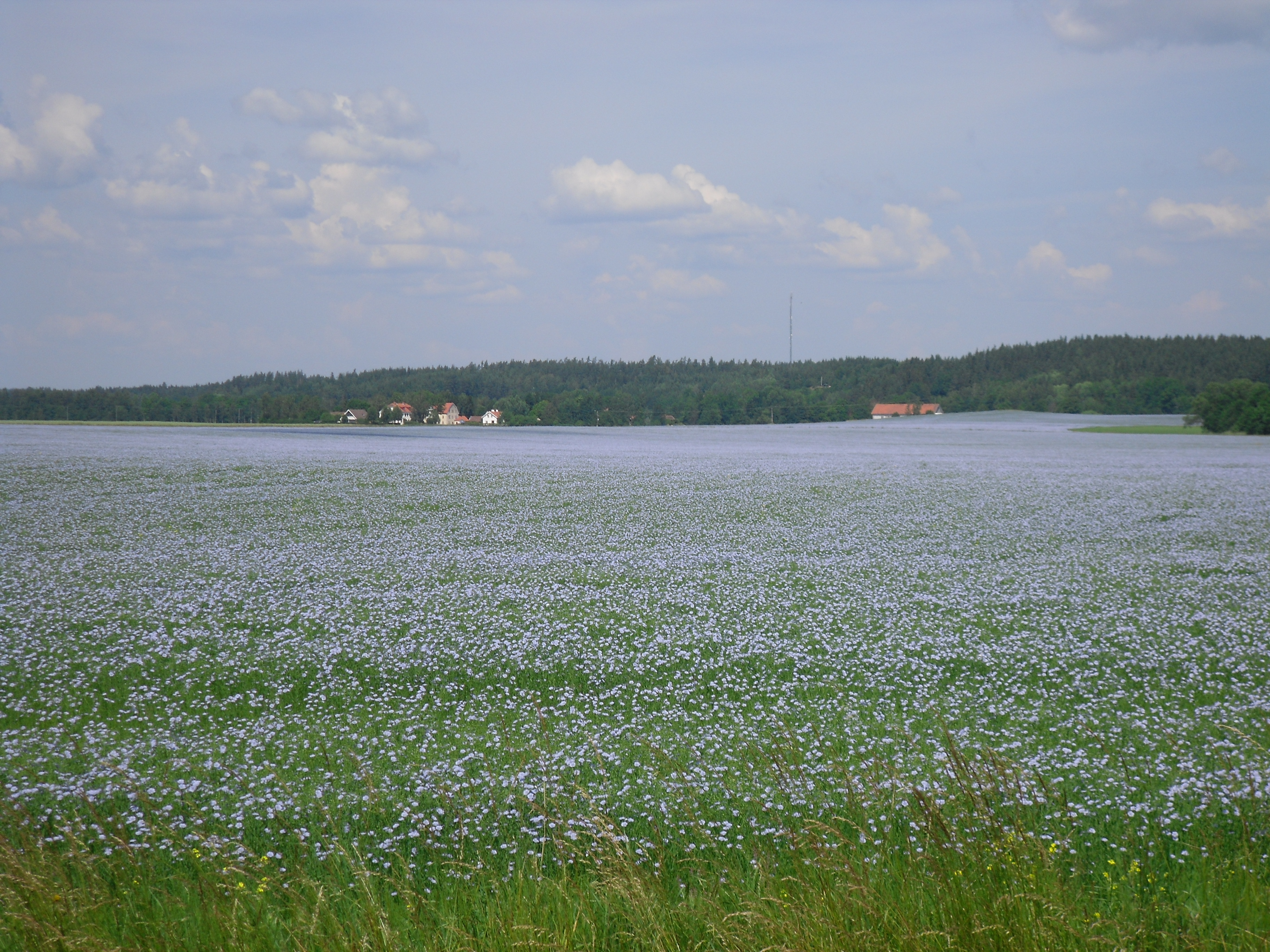 Common flax in the plains outside Linköping, Sweden.